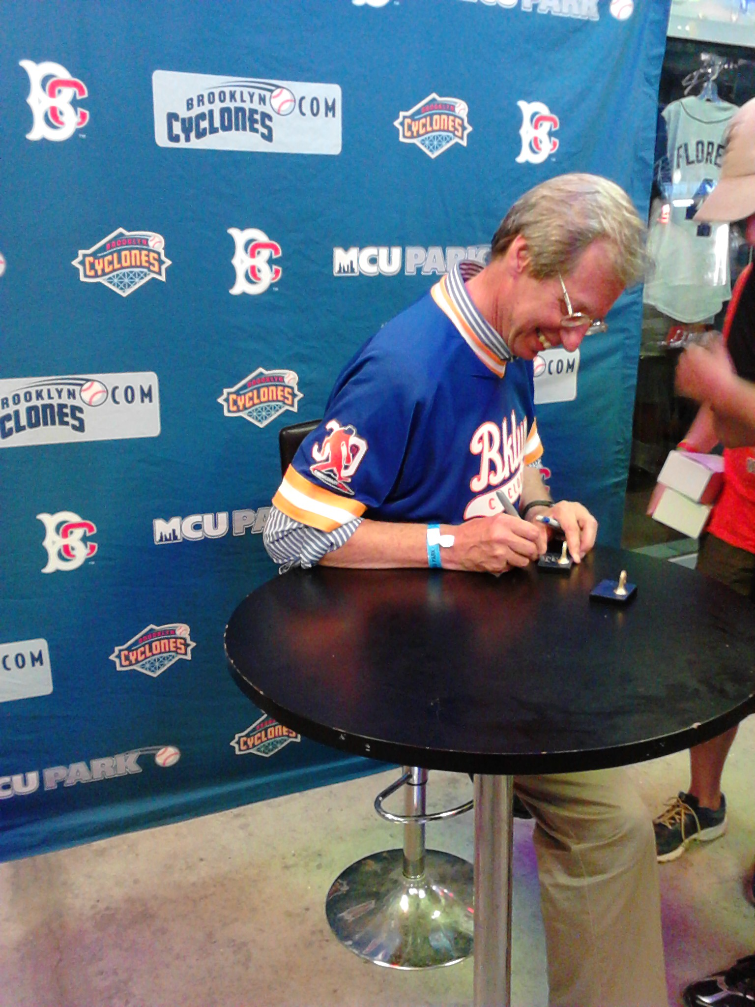 Joe Berton autographs a Sidd Finch bobblehead at Brooklyn Cyclones game.